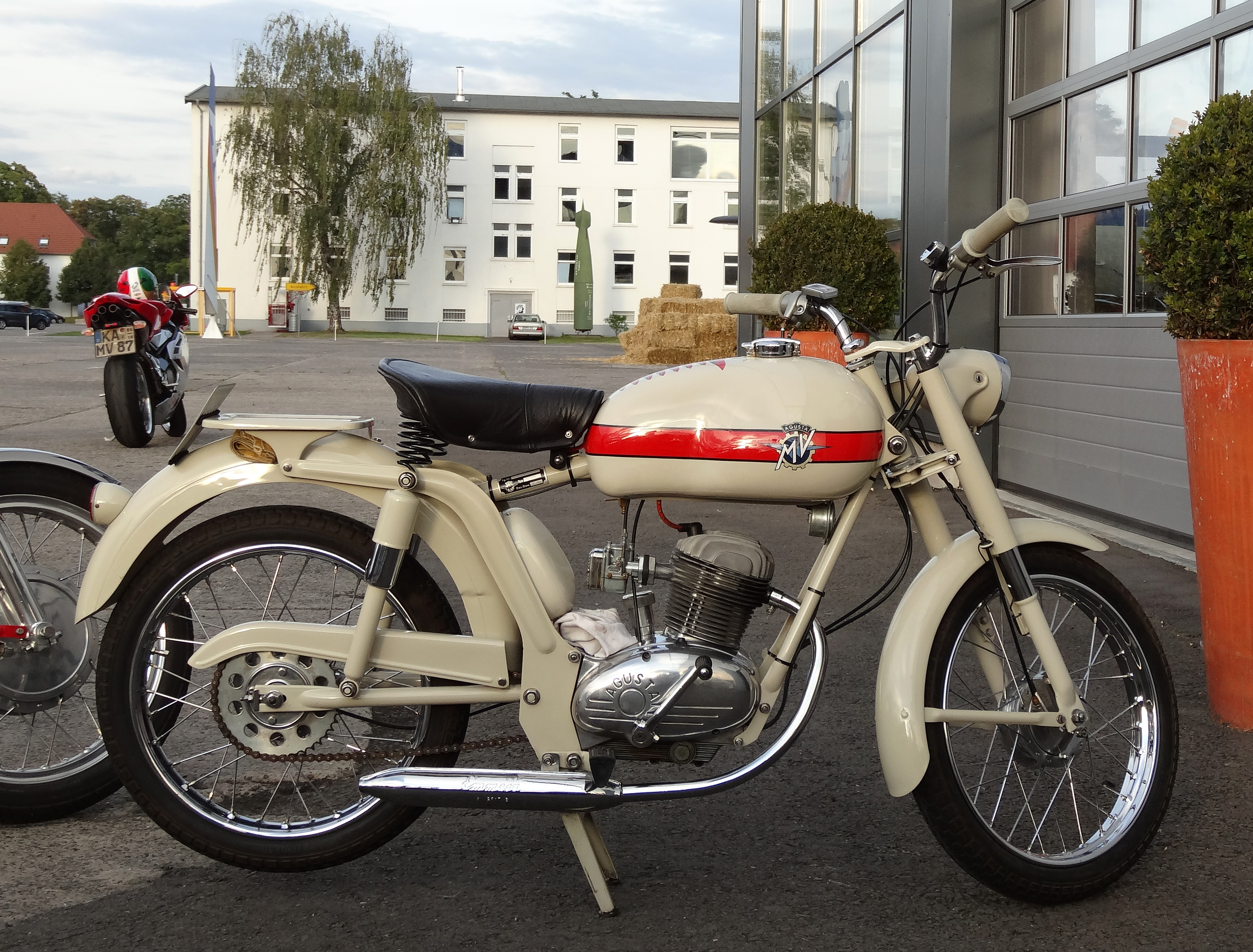 MV mono, MV Agusta Club Deutschland 2014